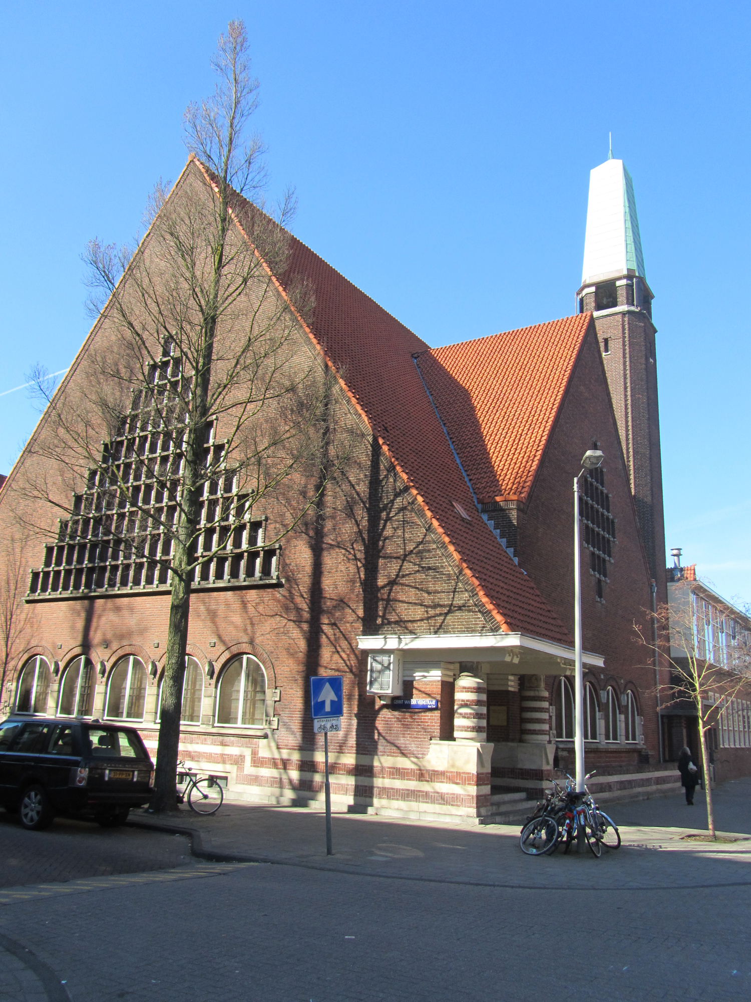 The Lutherkapel at Gerrit van der Veenstraat 38 in Amsterdam